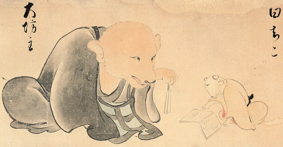 Ōbōzu and Shirachigo (大坊主と白児) and from the Bakemono-Dukushi Yumoto-C (化け物づくし 湯本C本)